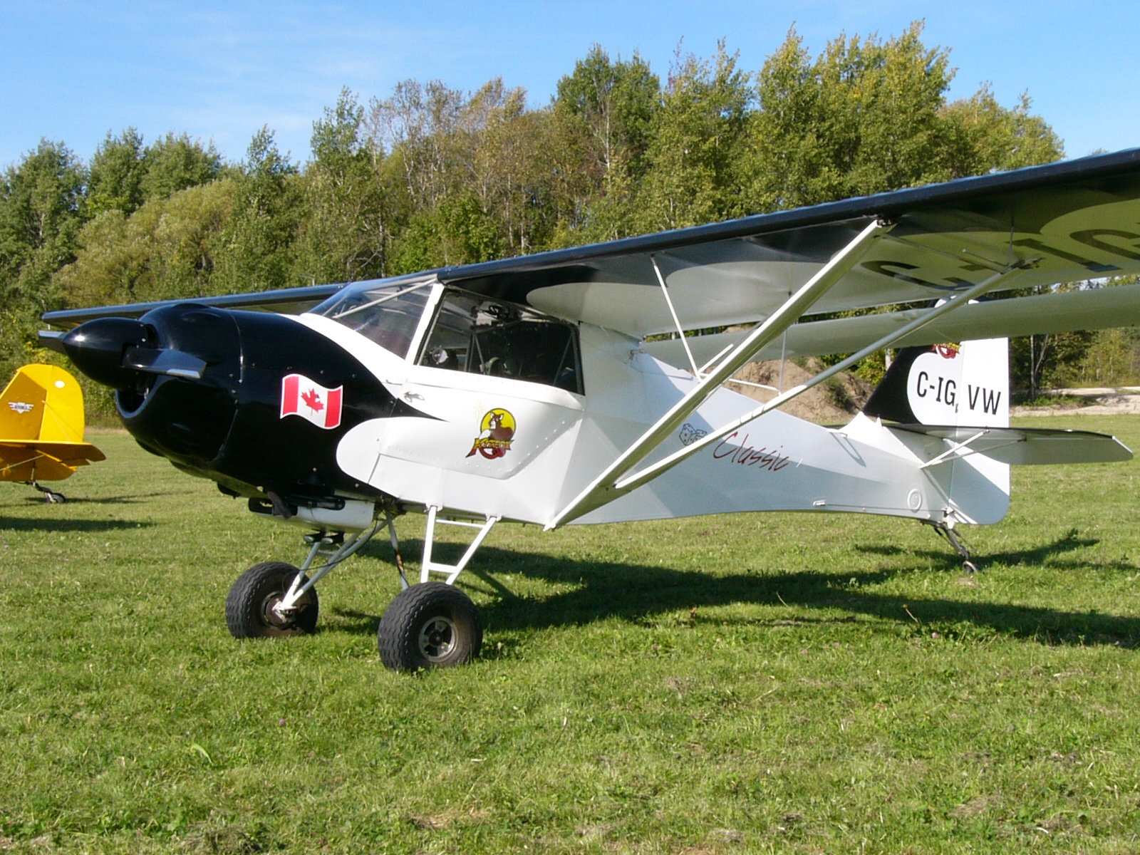 A Skystar Kitfox Model 4 Advanced Ultra-light Aeroplane at Edenvale Airport, Ontario, Canada